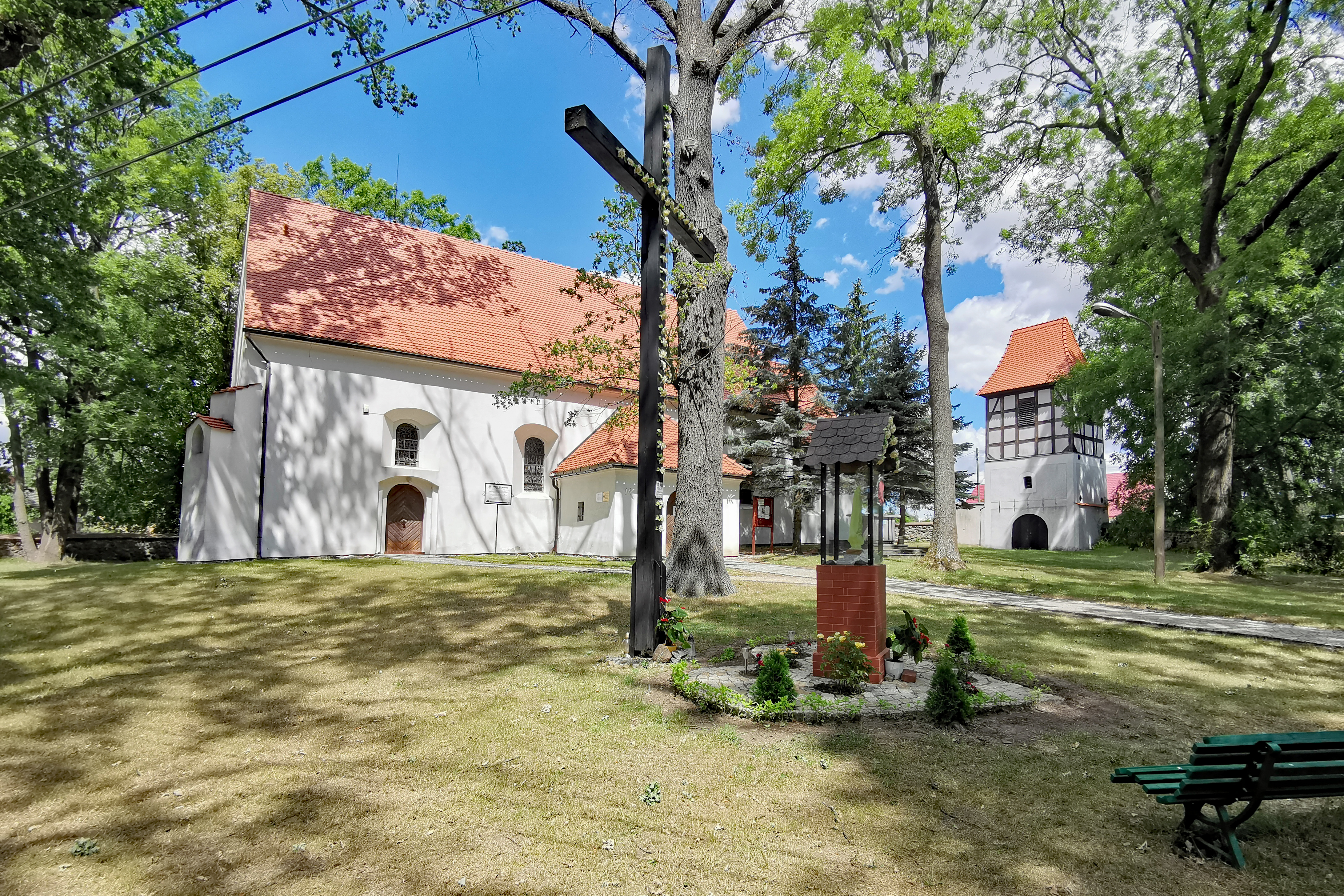 St Andrew (Szprotawa, Poland)